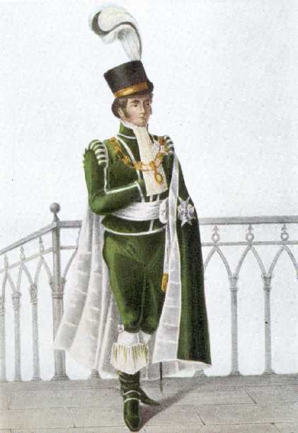 Ceremonial robes of the Order of the Vasa